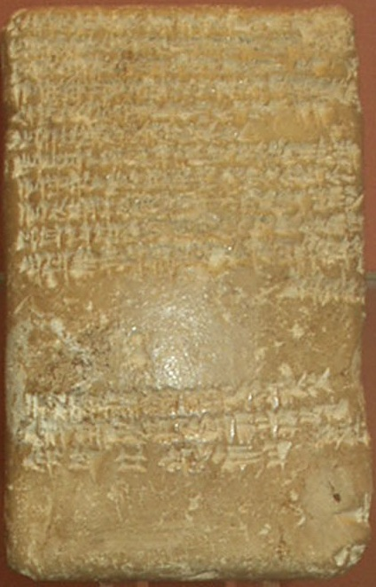 Reverse side of EA 9 letter from Burna Buriash II to Nibḫurrereya, thought to be Smenkhkare or Tutankhamen